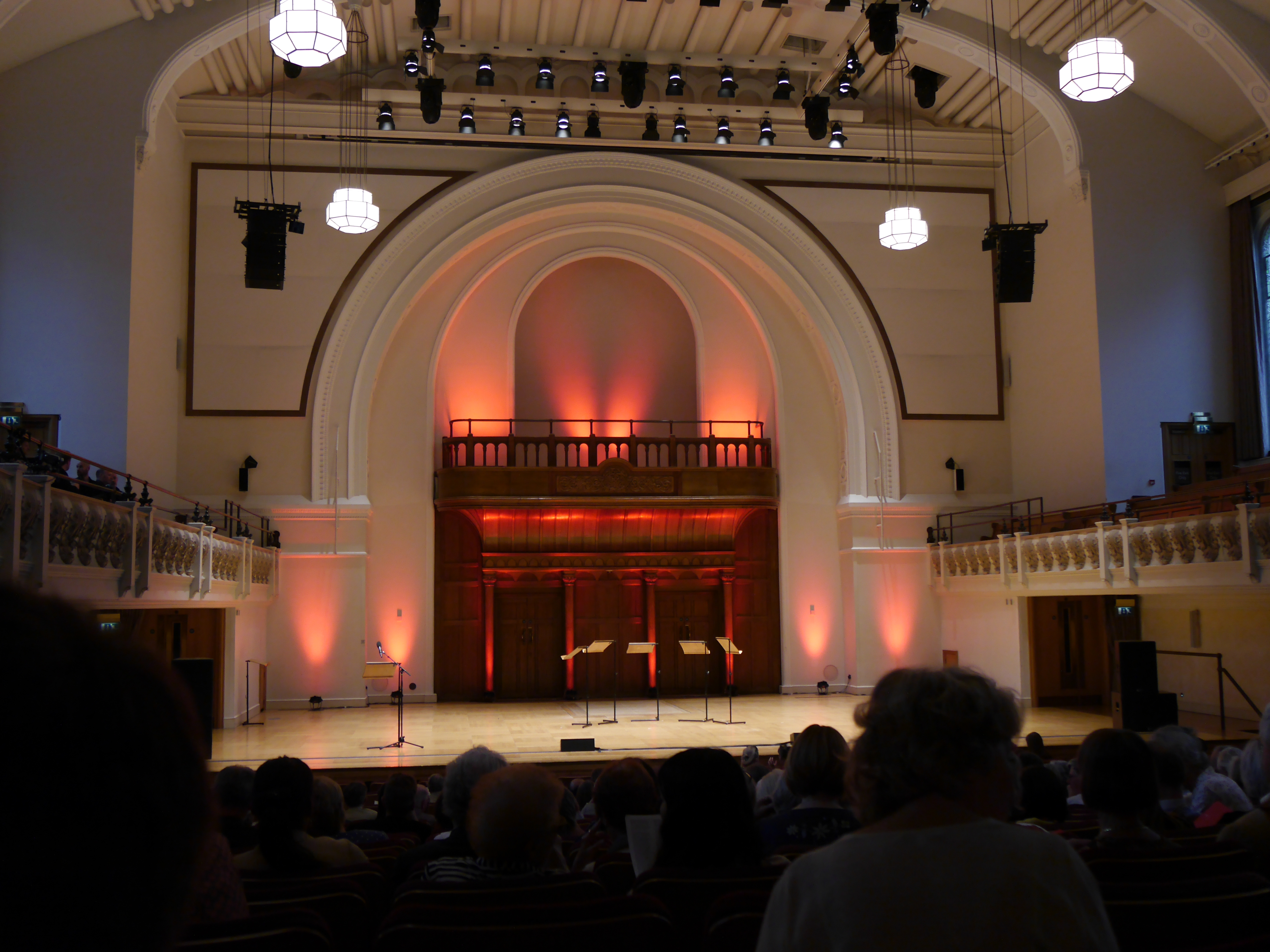 Cadogan Hall, July 2015